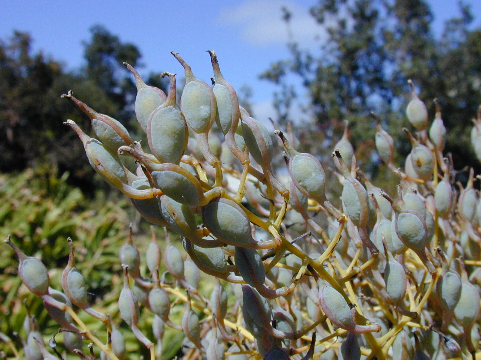 Bocconia frutescens (fruits). Location: Maui, Kula